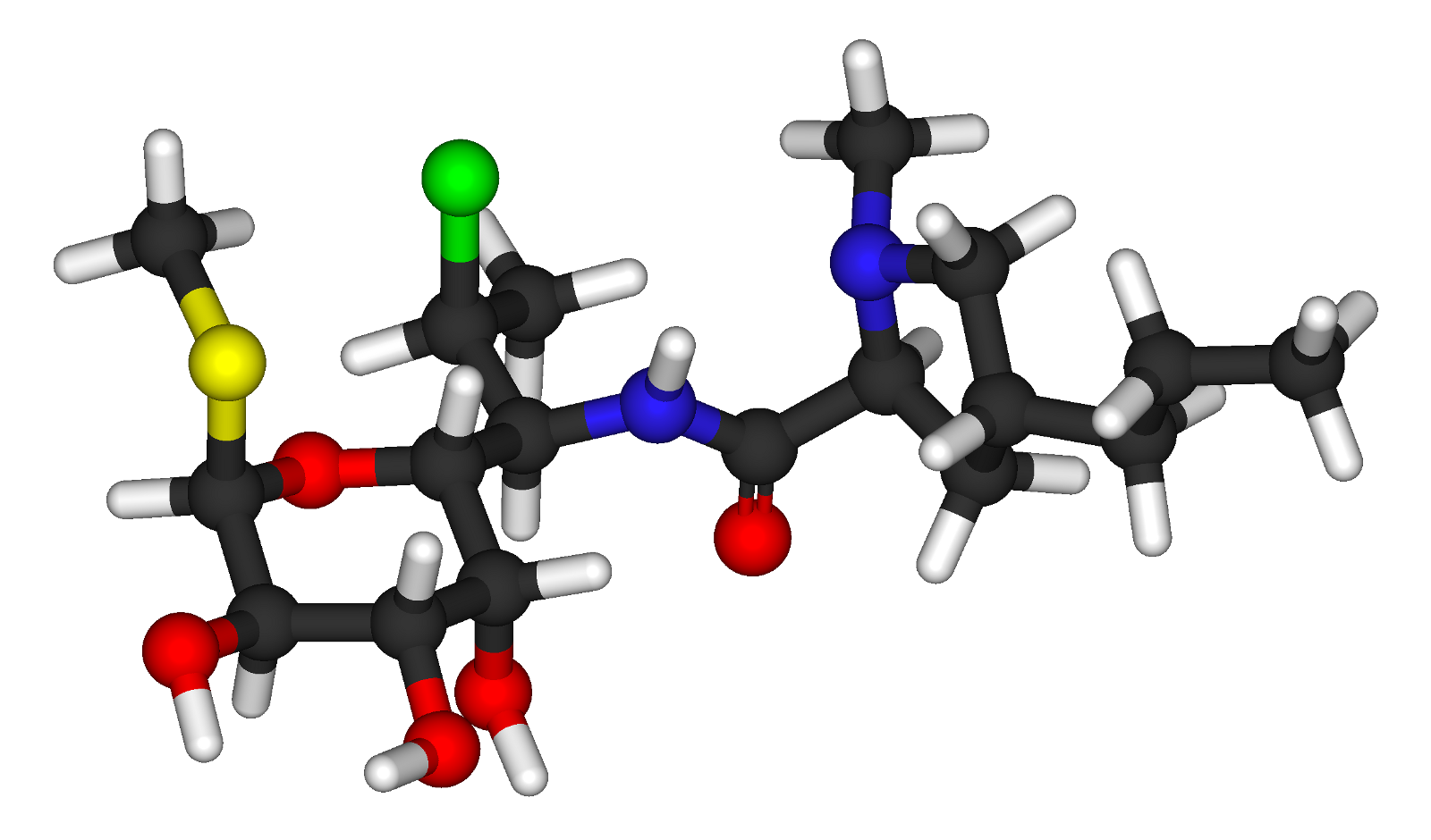 Ball-and-stick model of clindamycin.Created using Accelrys DS Visualizer Pro 1.7 and GIMP. Optimized with OptiPNG. This image was created with Discovery Studio Visualizer.